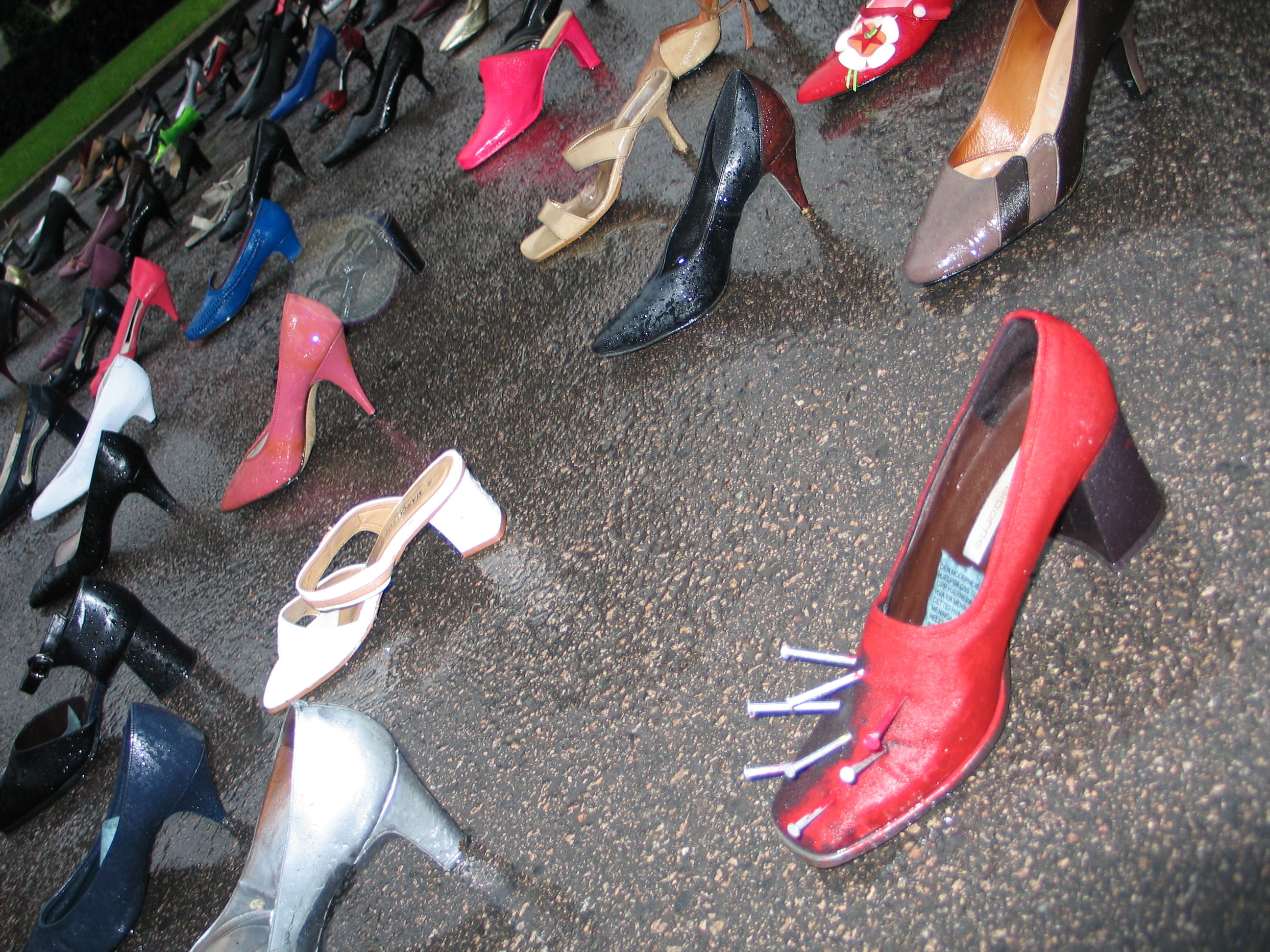 READYMADE